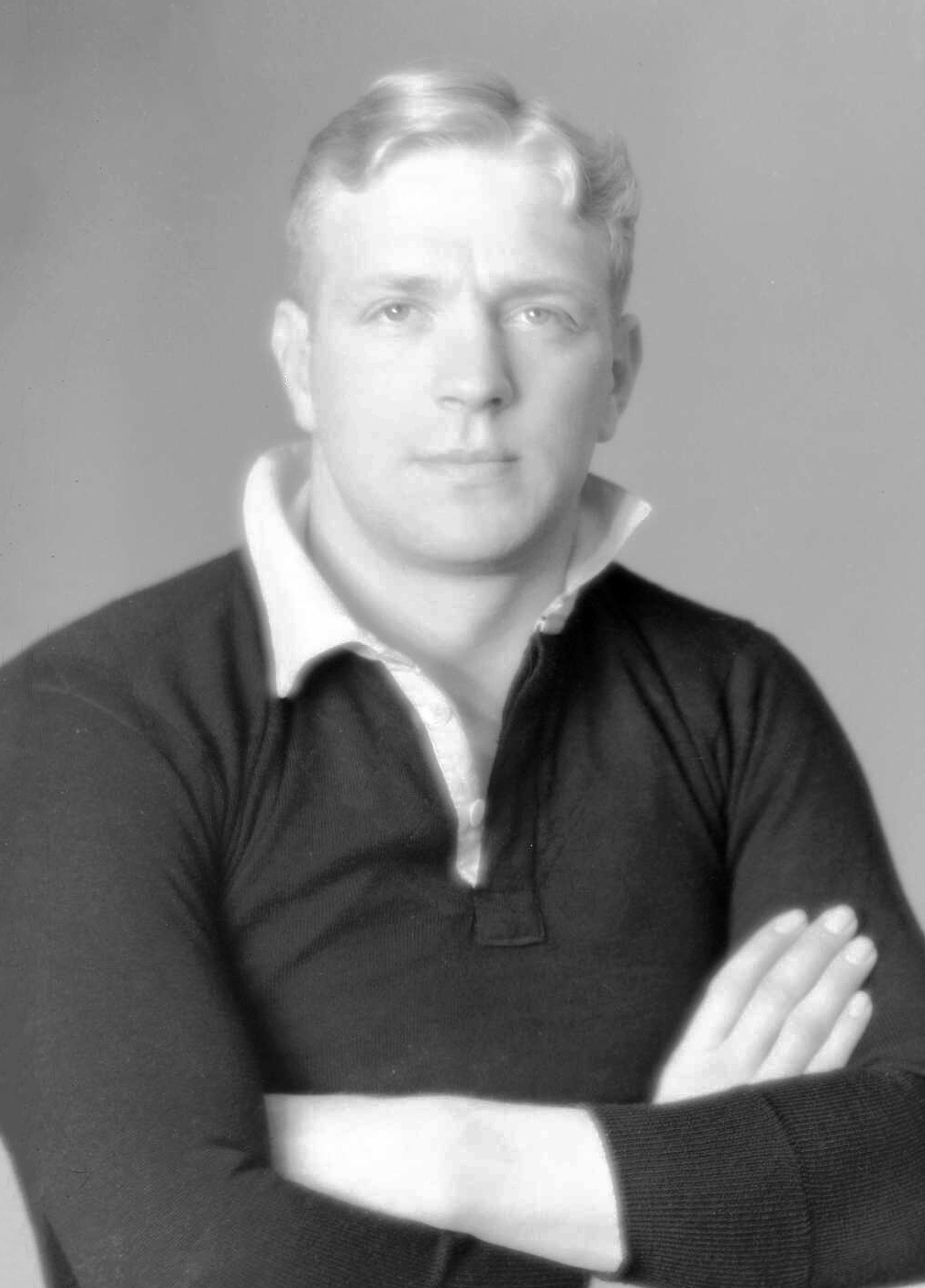 All Black in 1946. Photograph of rugby player Patrick Rhind.